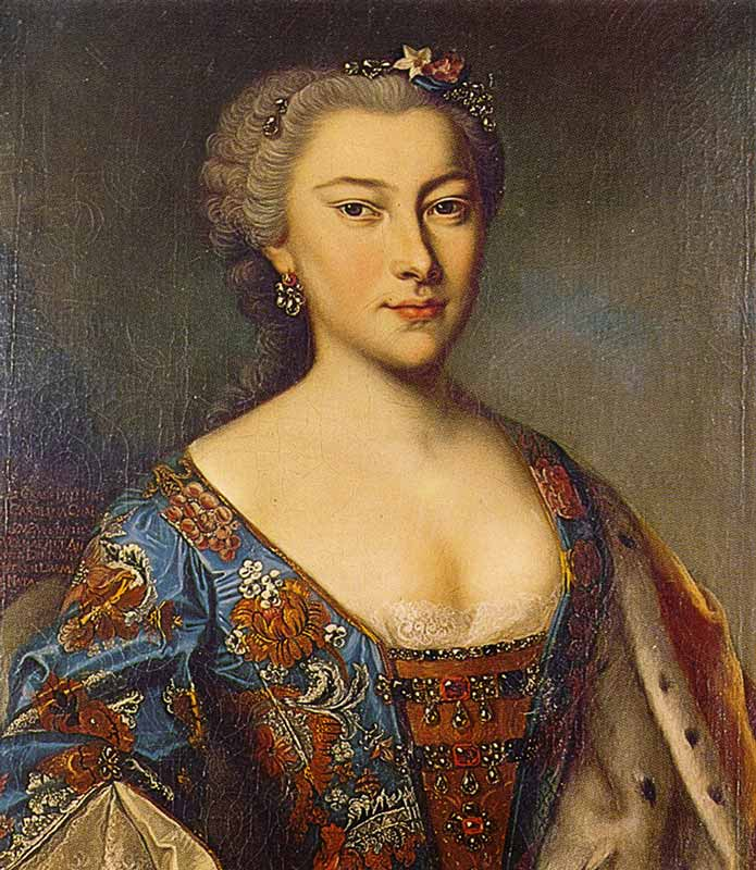 Portrait of Caroline of Nassau-Saarbrücken (1704-1774), Countess Palatine of Zweibrücken